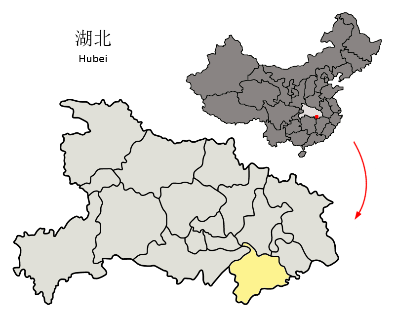 Location of Xianning Prefecture (yellow) within Hubei Province of China Map drawn in december 2007 using various sources, mainly : Hubei Province administrative regions GIS data: 1:1M, County level, 1990 Hubei Counties map from